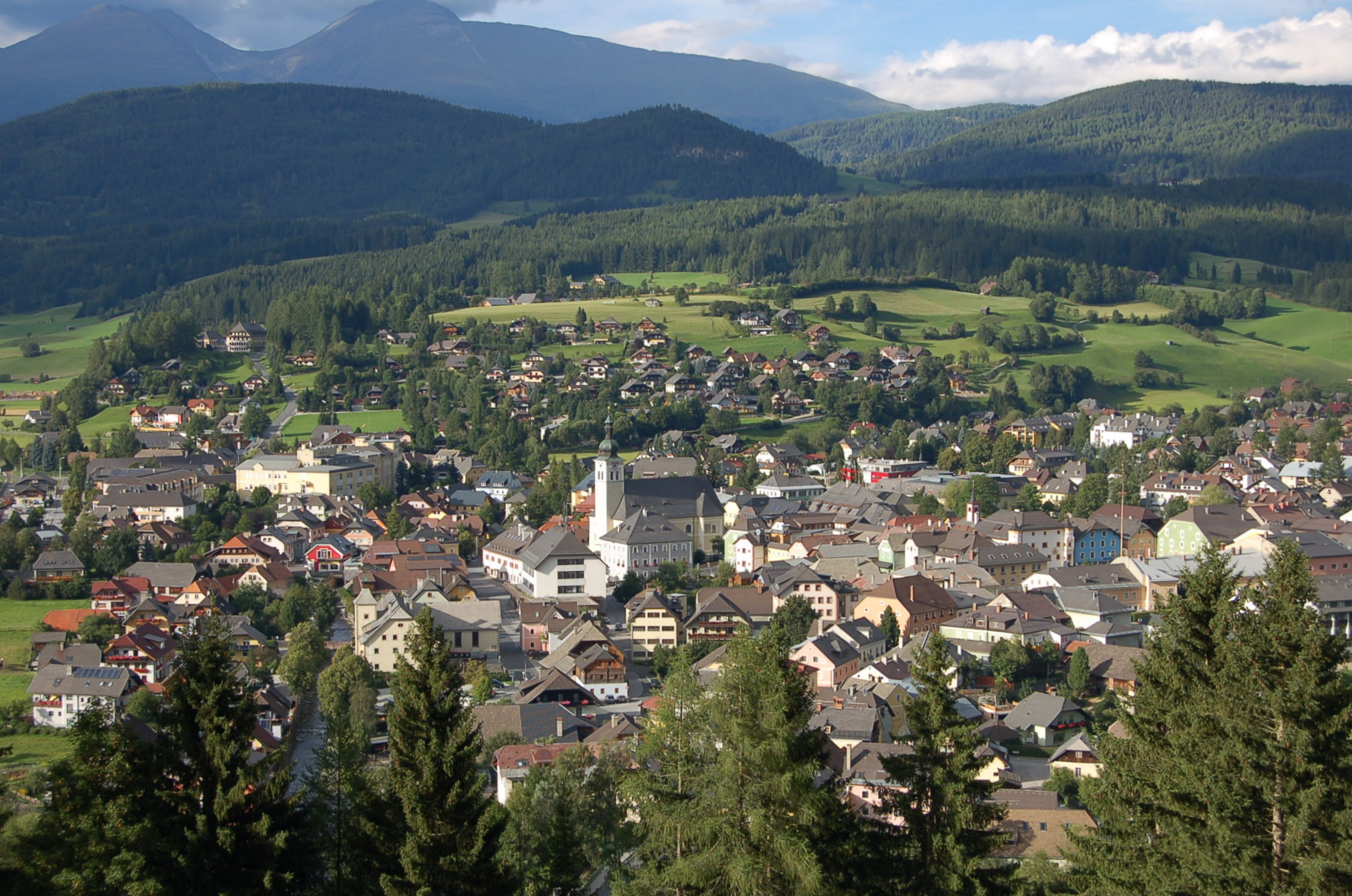 View of Tamsweg in Lungau district, Salzburg state, Austria, seen from Saint Leonhard church